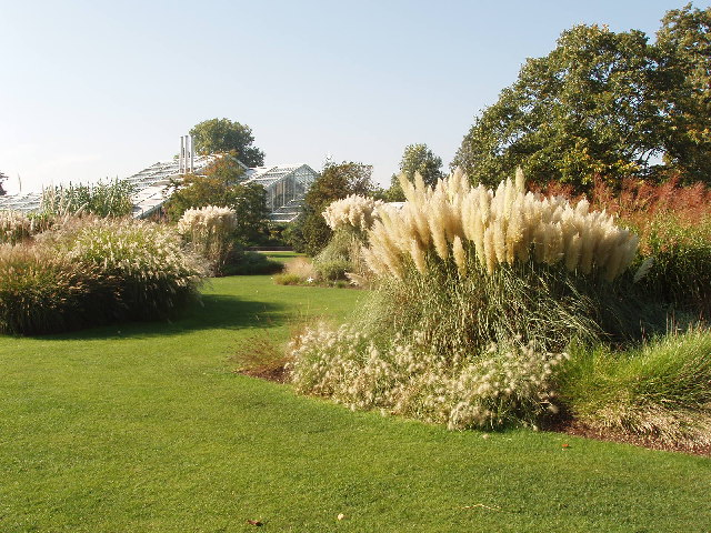 Grass Garden at Kew. Kew Gardens are mainly laid out with similar types of plant in one area. This area has both ornamental grasses like Pampas Grass and also crops like wheat and millet. In the background is the Princess of Wales Conservatory.